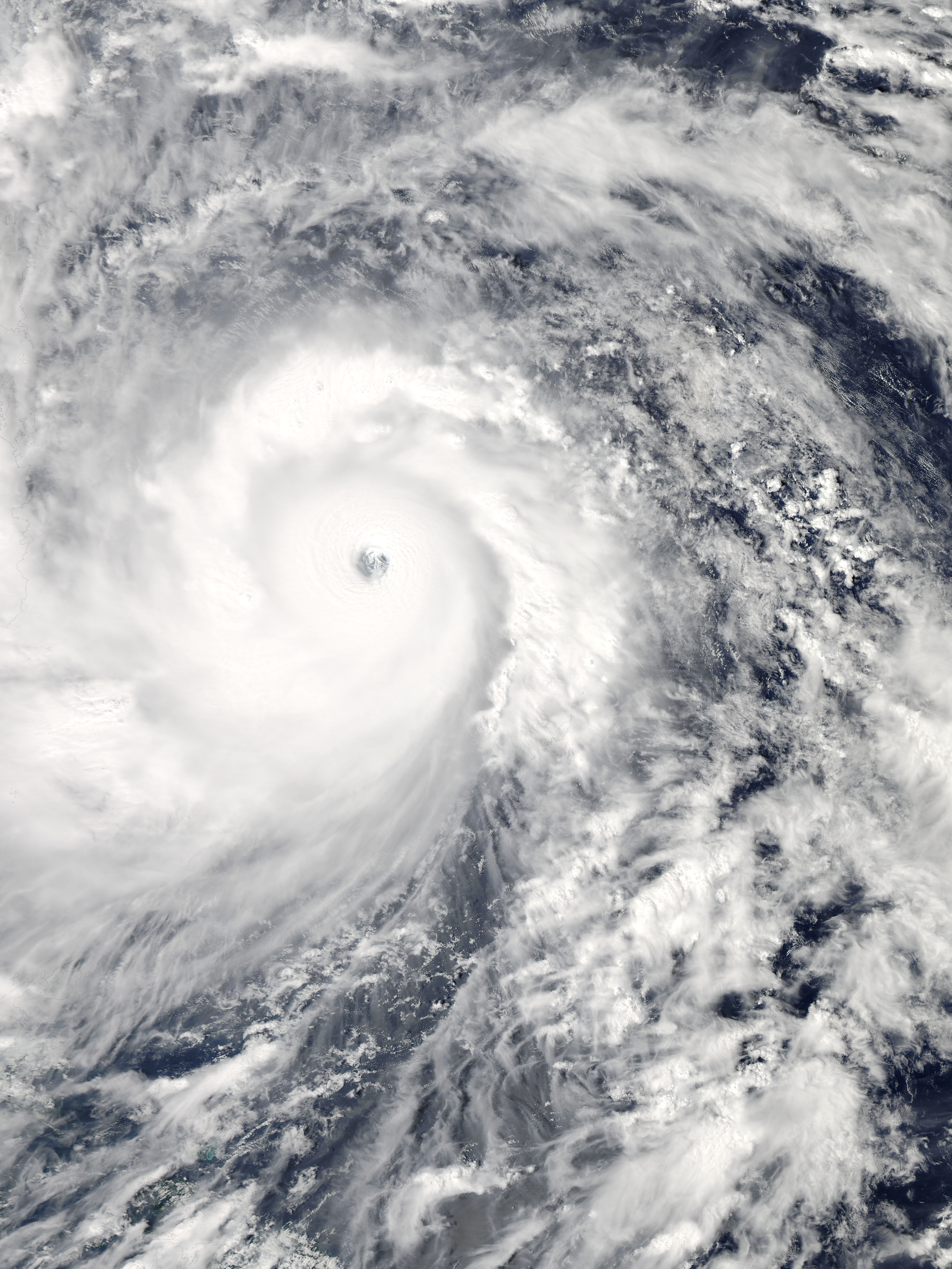 Typhoon Haiyan approaching the Philippines on November 7, 2013.